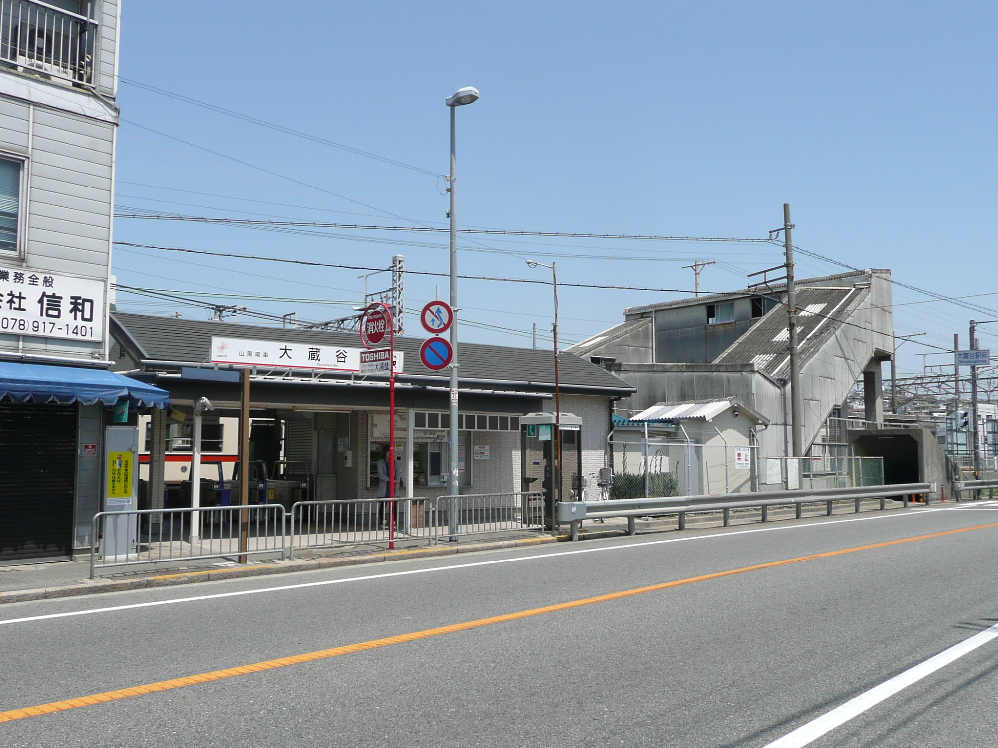 Sanyo Electric Railway,Okuradani Station. / 山陽電気鉄道大蔵谷駅